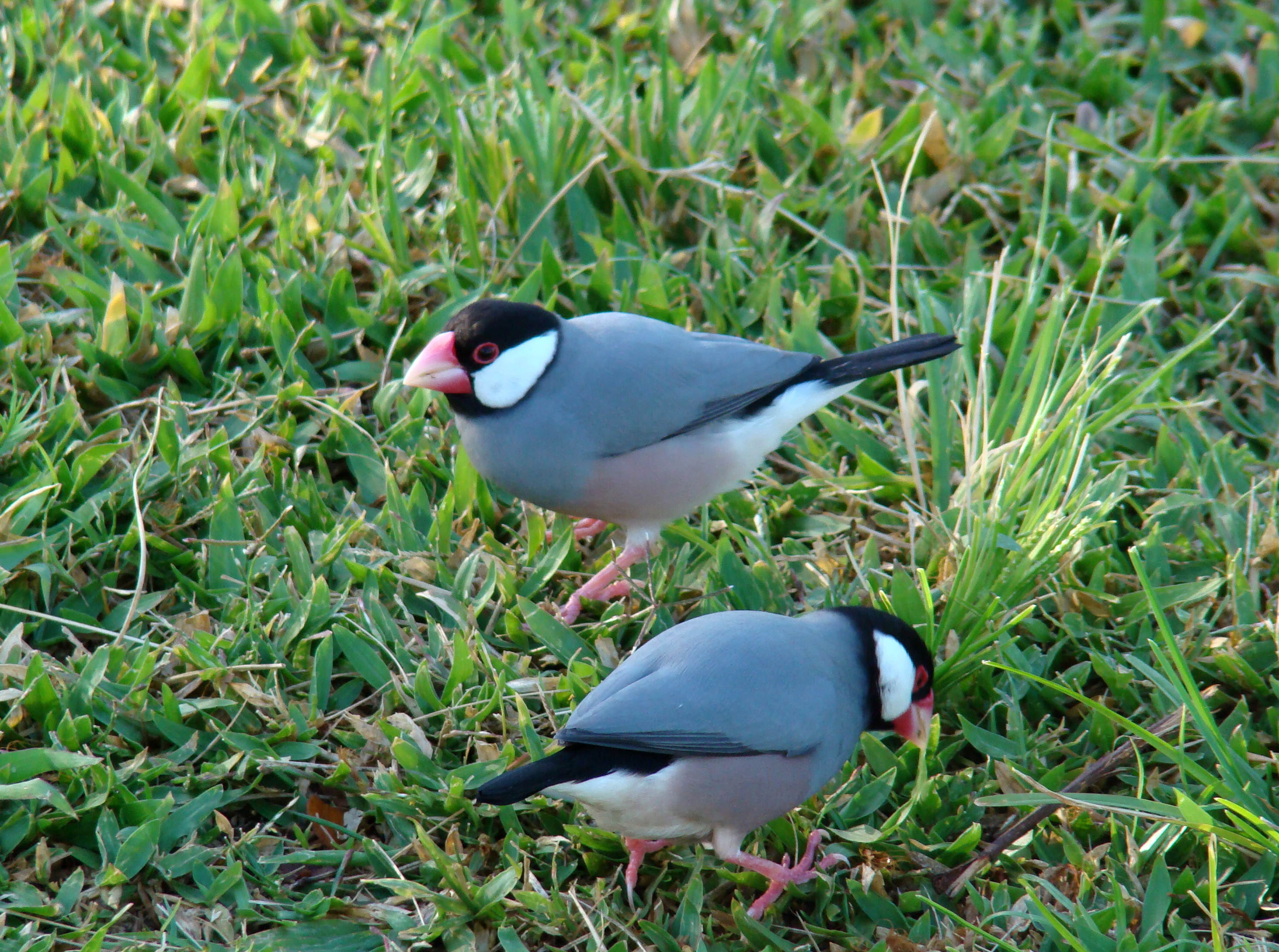 Two Java Sparrow (Padda oryzivora) in grass in Hawaii